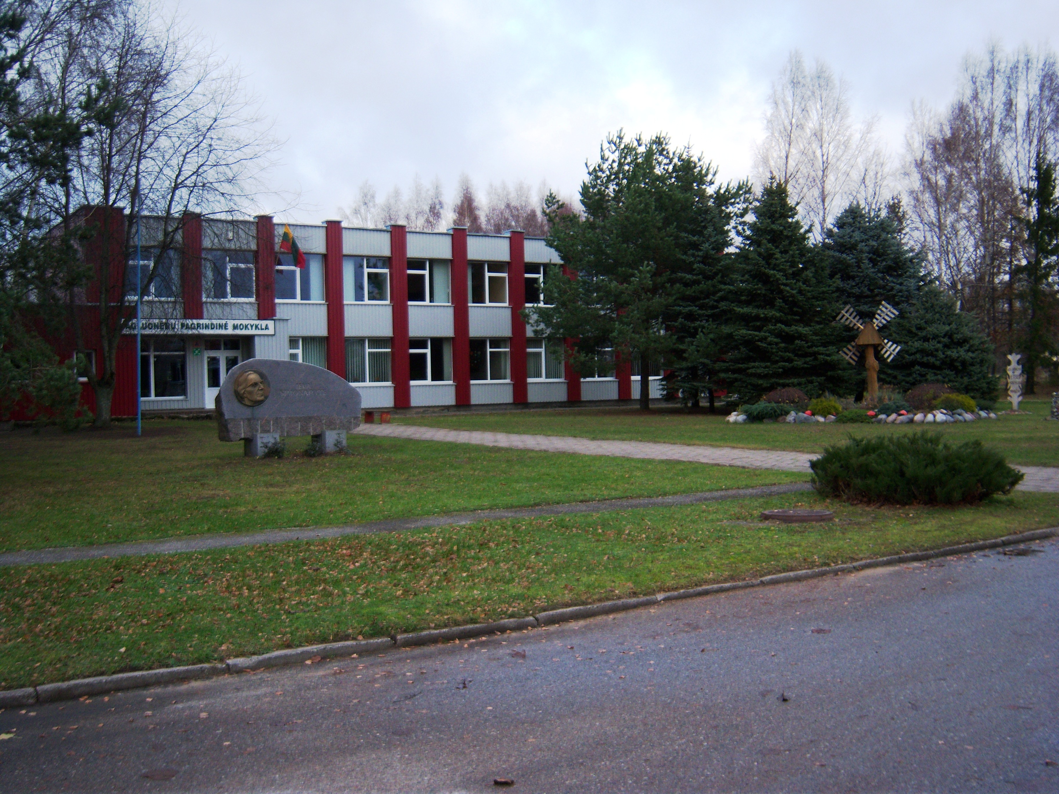 Agluonėnai school, Klaipėda District, Lithuania